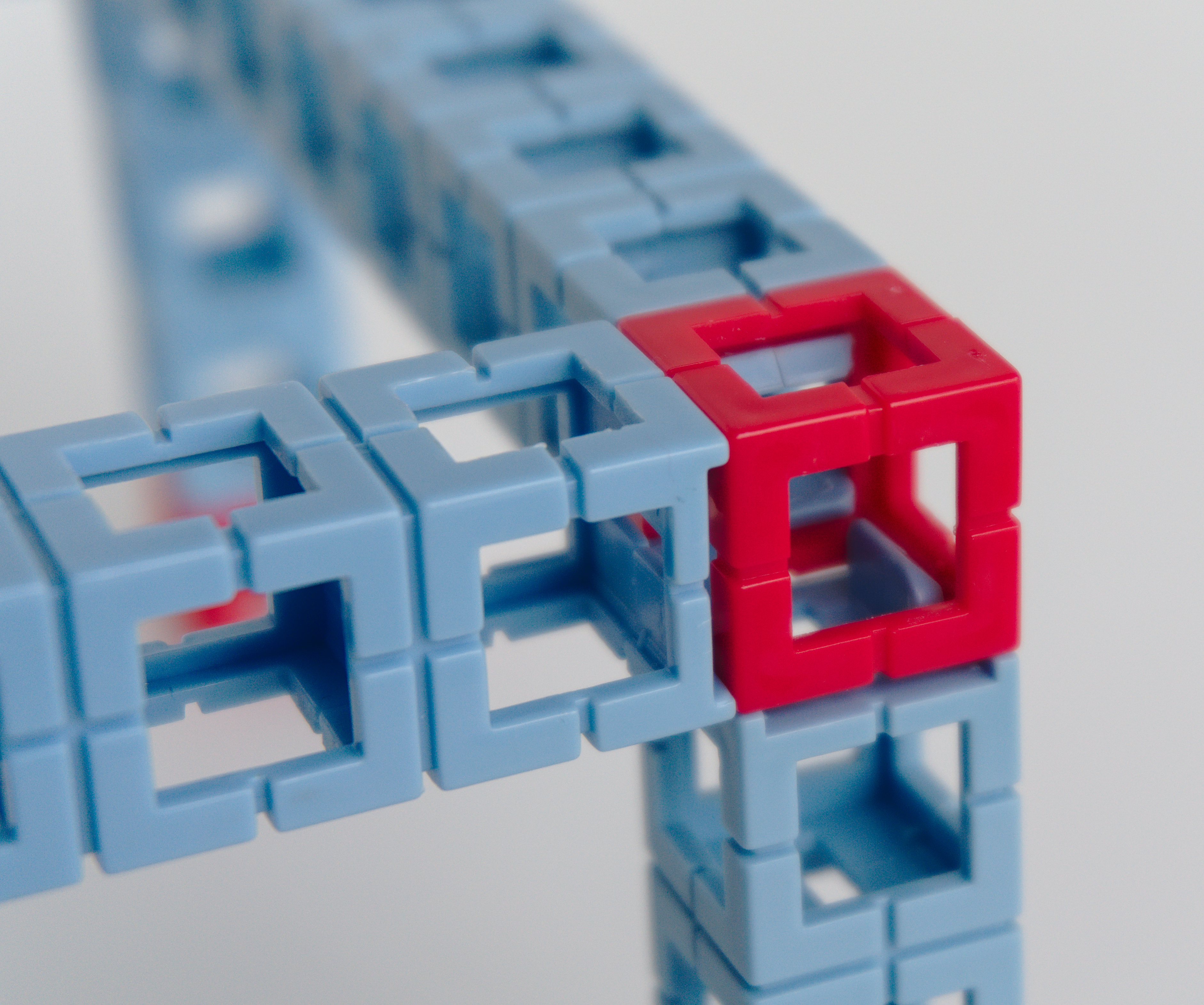 Rokenbok beams connected with a cube